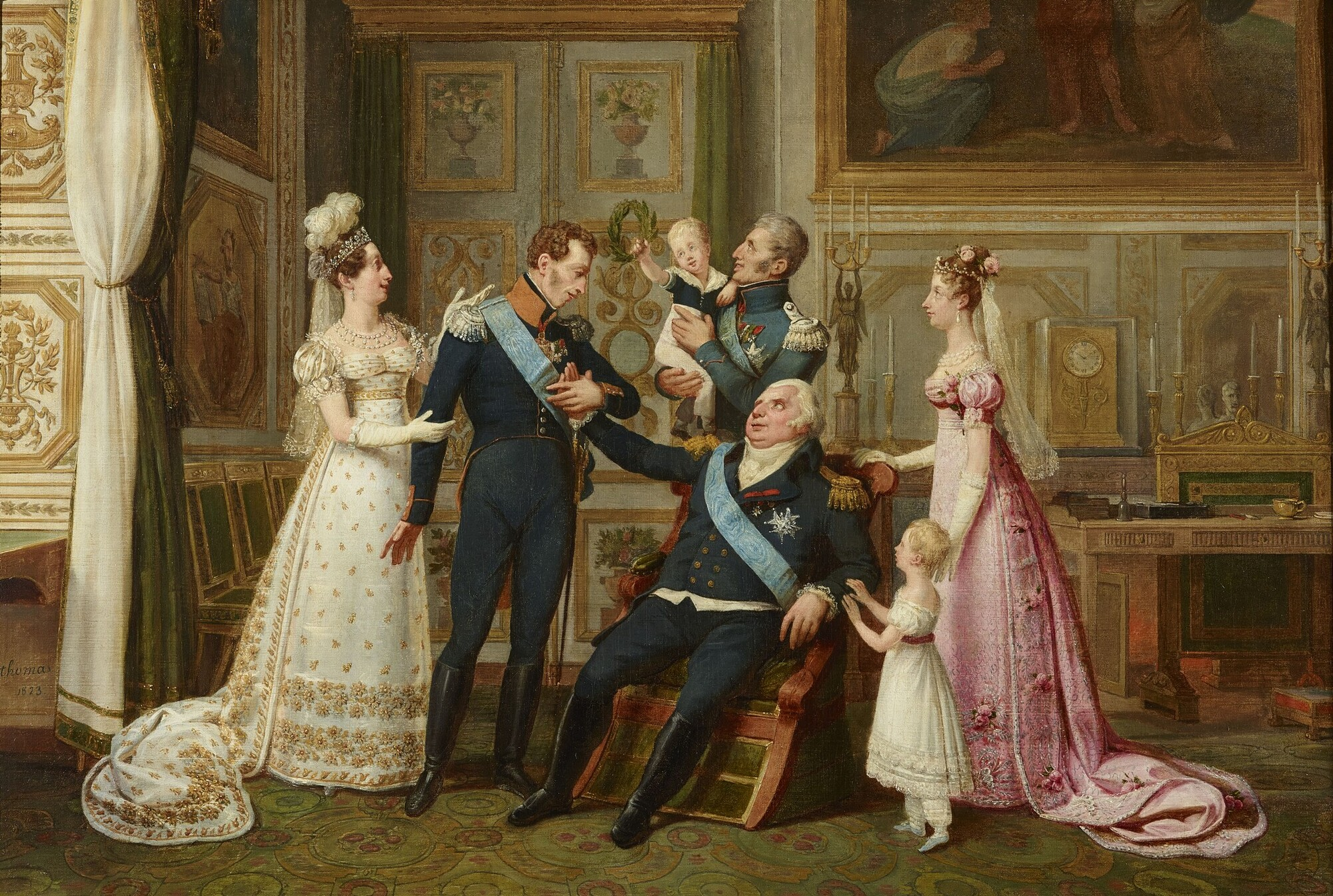 In his apartments at the Tuileries, Louis XVIII receives the Duke of Angoulême, victorious commander-in-chief of the Pyrenees Army. Behind the Duke, Madame Royale - Marie-Thérèse Charlotte, daughter of Louis XVI, her first cousin whom he married in exile in 1799 - clings to her husband and looks up at him admiringly. Standing behind the King, Monsieur, Count d'Artois, his brother, holds in his arms the little Duke of Bordeaux, son of the Duke of Berry assassinated in 1820, while the mother of the child stands to the left of the Sovereign. Imprinted with a wholly filial atmosphere, the scene highlights the continuity of the Bourbon dynasty.